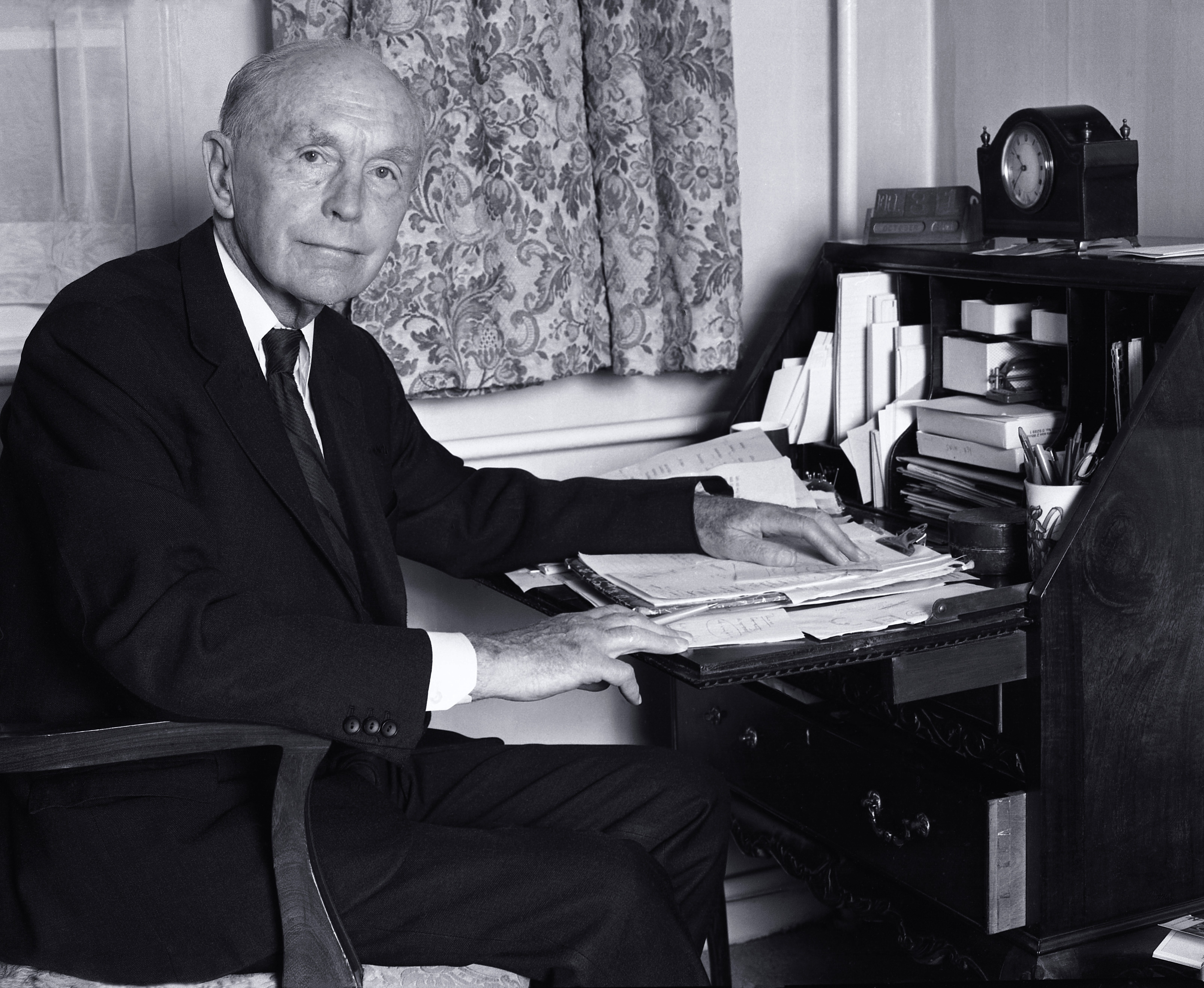 Lord Alec Douglas-Home taken in his apartment, Westminster, London